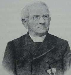 Augustin Weltzel (1817–1897) German Roman Catholic priest, historian of Upper Silesia